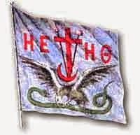 Flag of Greek War of Independence of 1821 that Samos leader Logothetis Lykoyrgos flew over Karlovassi.